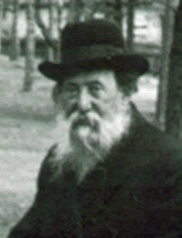 Rabbi Shimon Shkop (left) conversing with Rabbi Chaim Ozer Grodzinski (right).